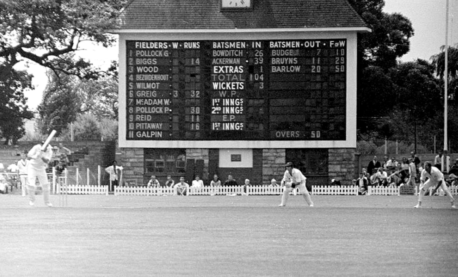 The scoreboard at Newlands cricket ground Cape Town South Africa taken during the match between Western Province and Eastern Province in February 1972